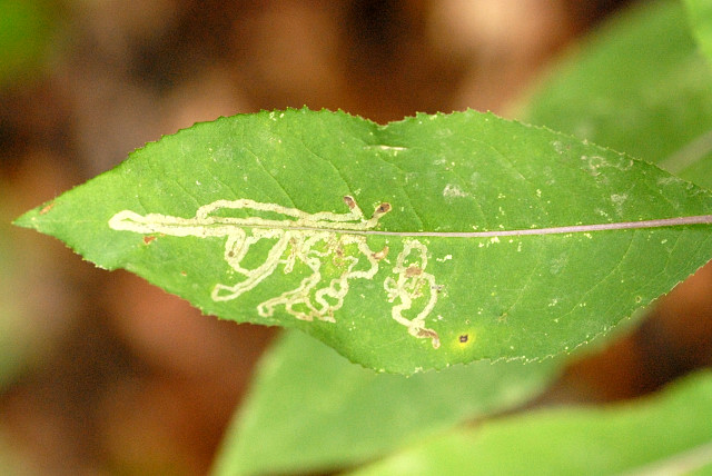 Phytomyza senecionis from Commanster, Belgian High Ardennes .